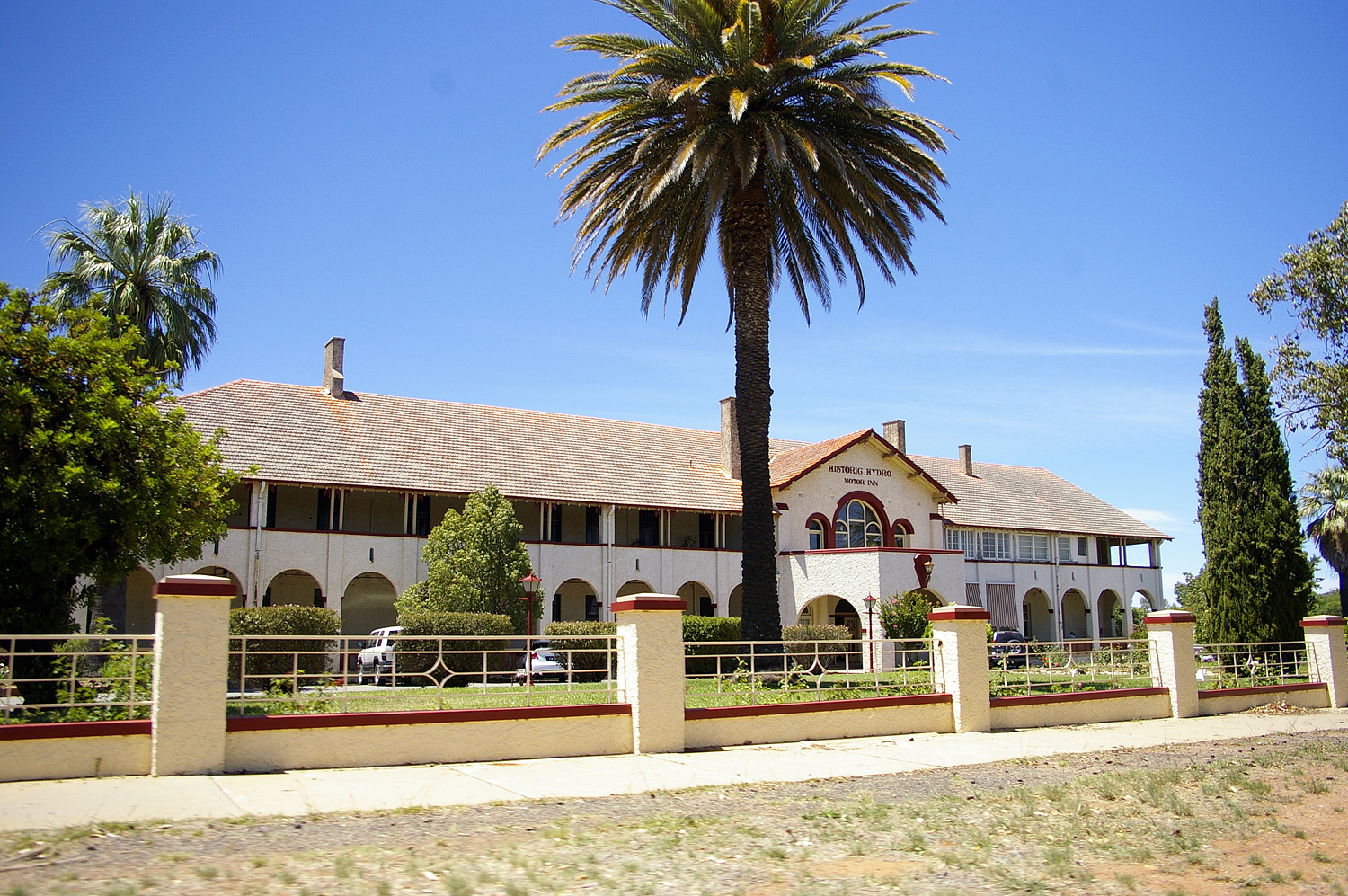 Historic Hydro Motor Inn.